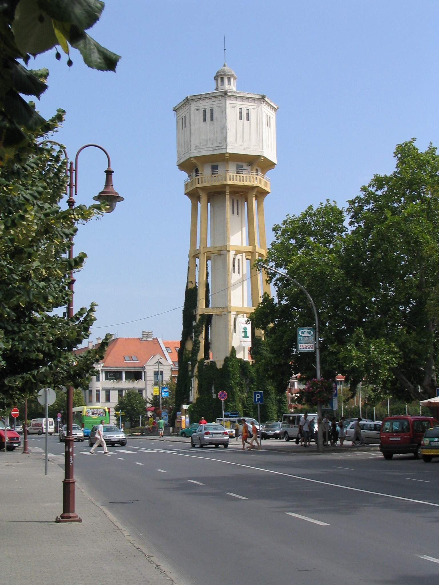 Siofok_tower (Hungary, Siofok)